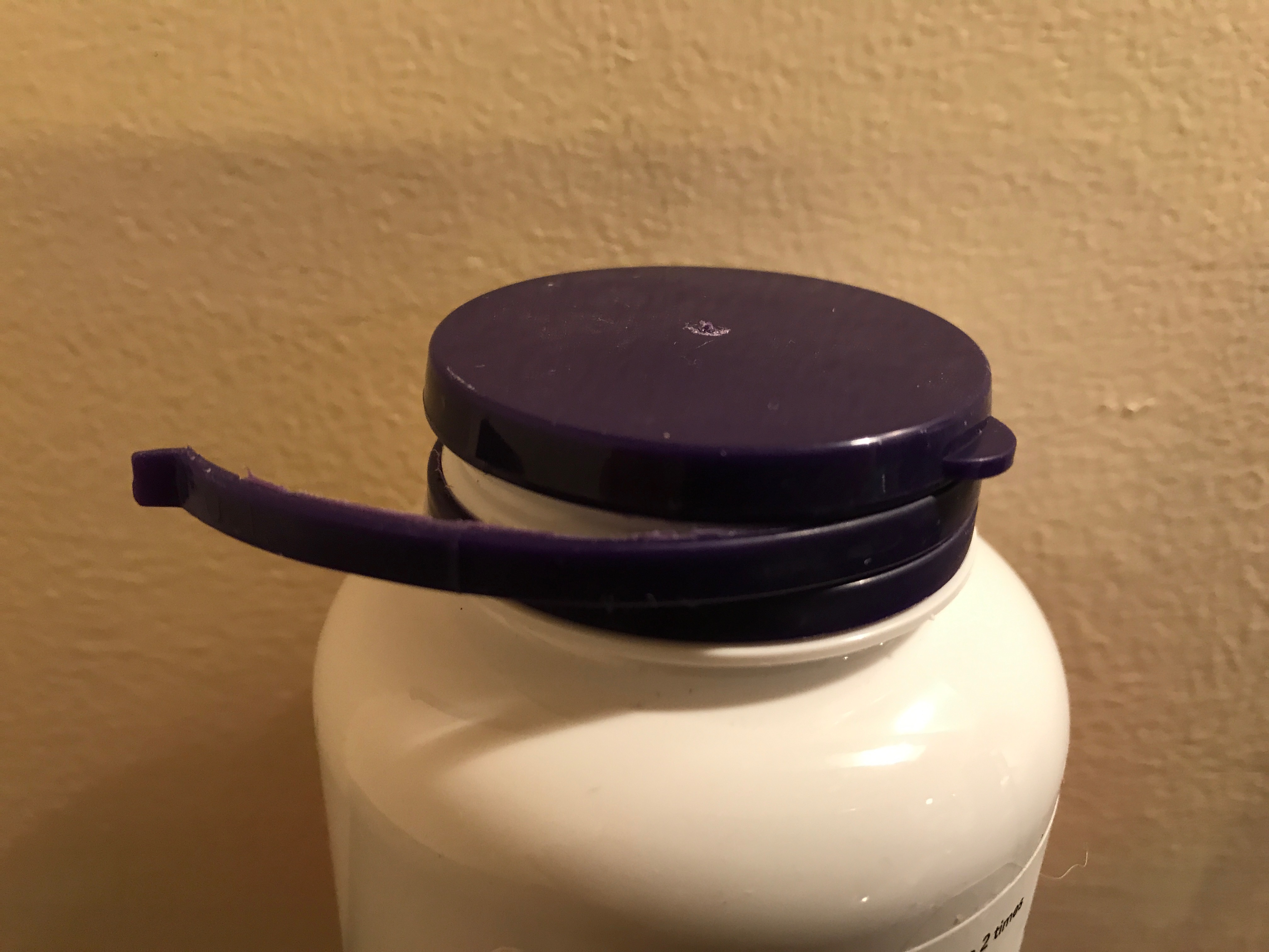 Tear open seal on a bottle of capsules